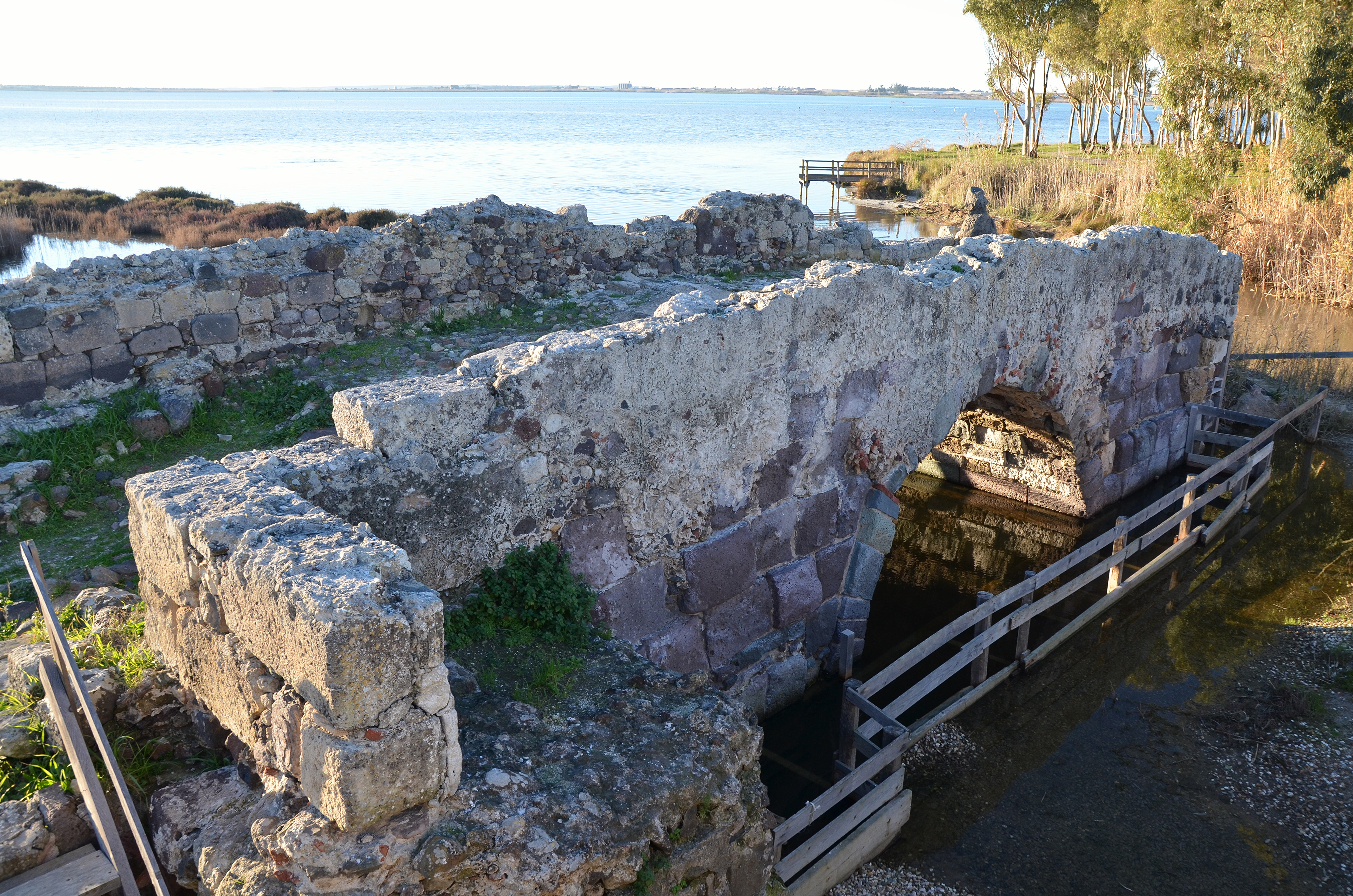 Remains of the roman bridge at Santa Giusta on the road from Othoca to Carales, Sardinia